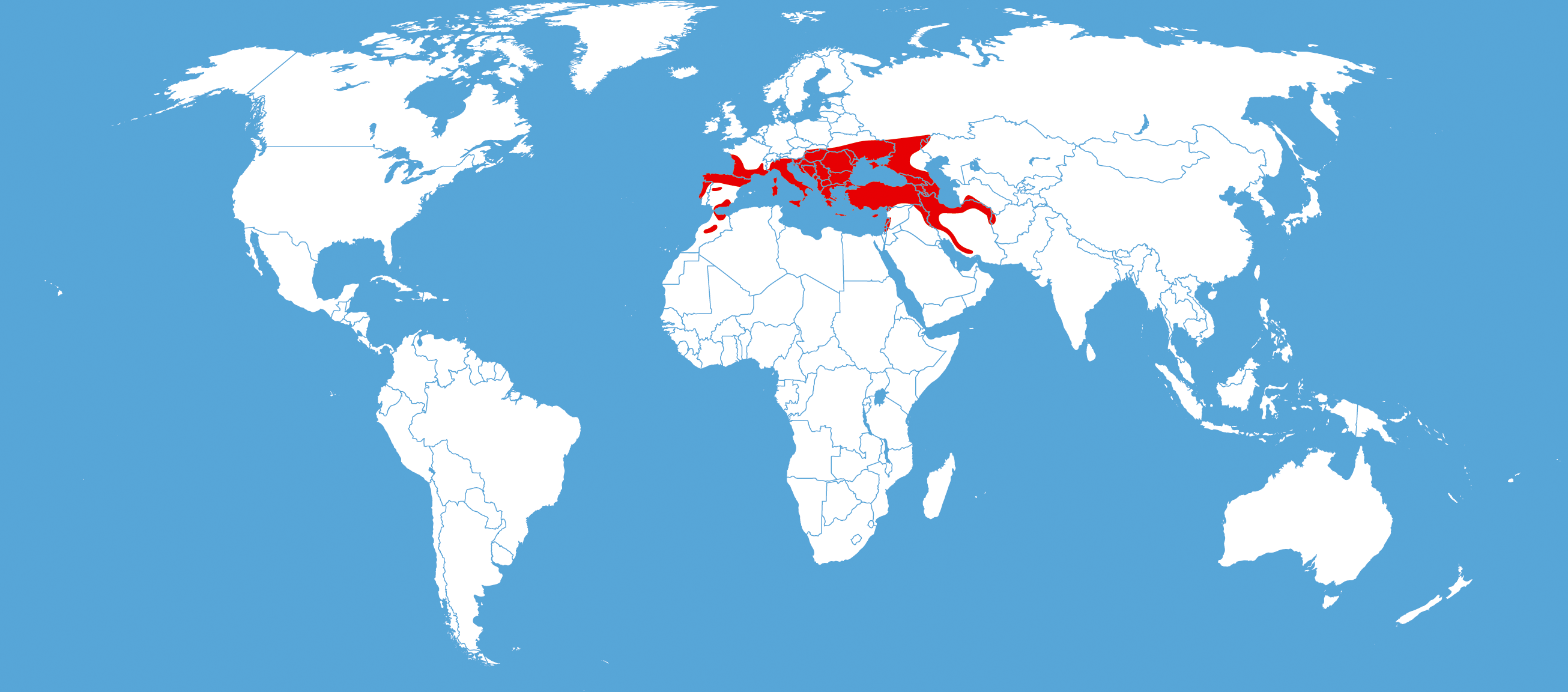 Distribution map of the Oak Hawk-moth